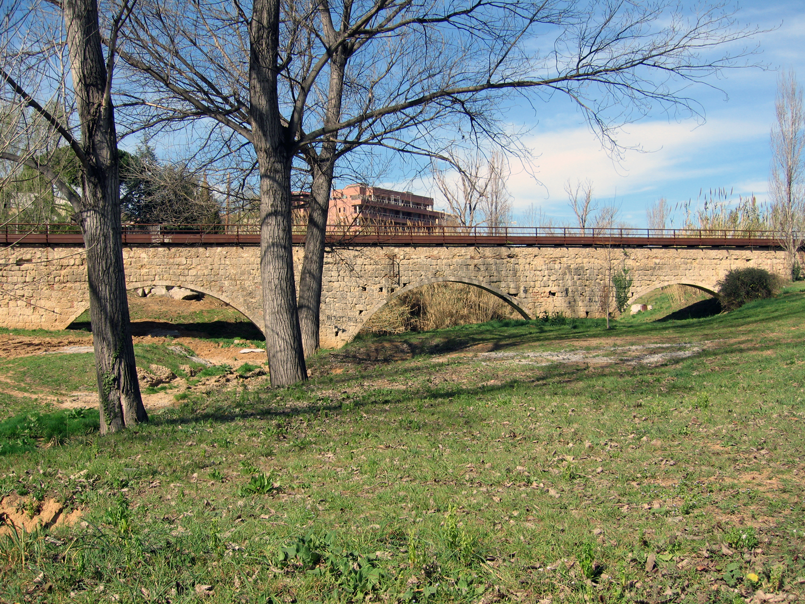 Former aqueduct of the Pont de Can Vernet in Sant Cugat del Vallès (Catalonia).